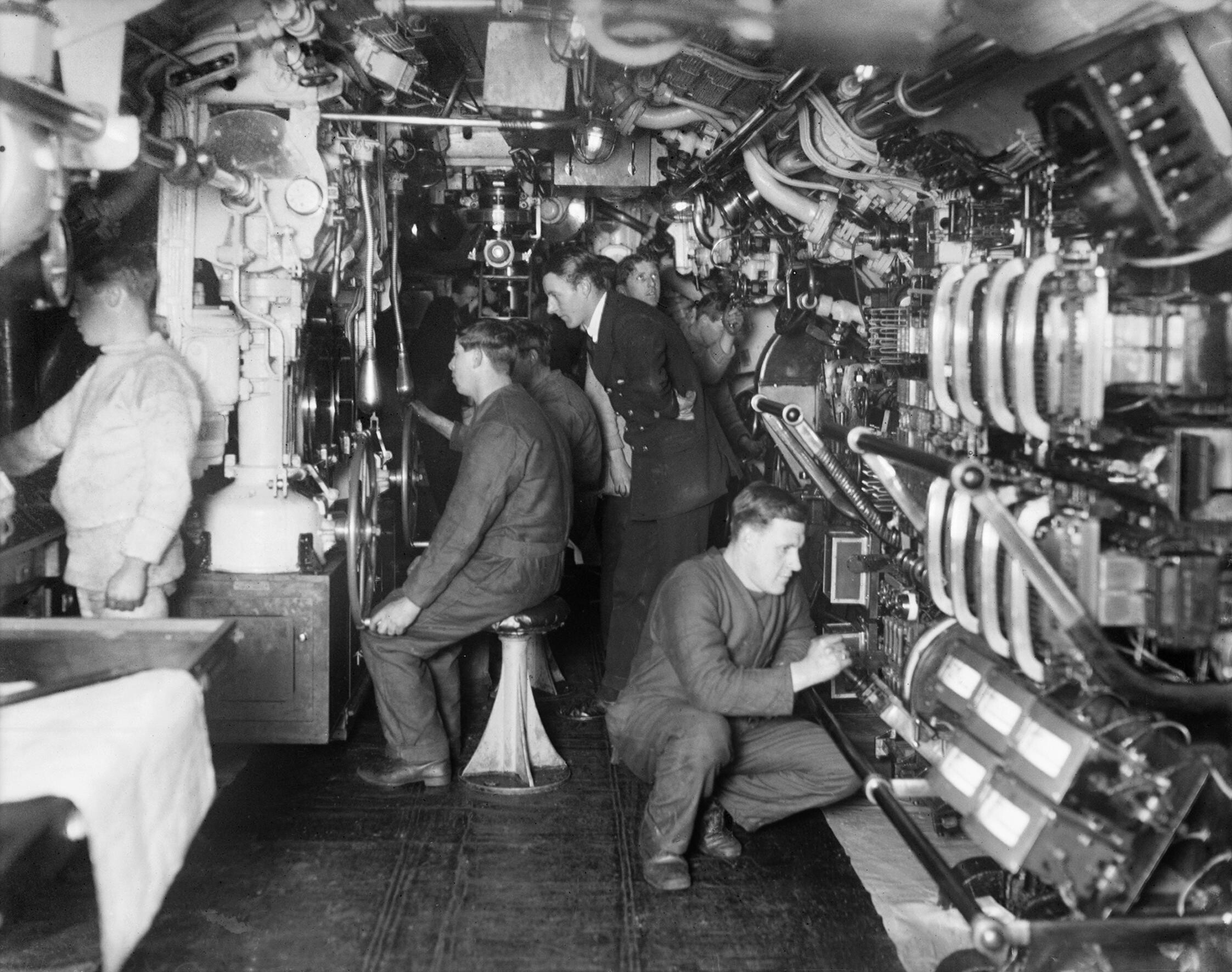 IWM caption : "The interior of a British E class submarine (possibly E 34). An officer can be seen supervising submerging operations."